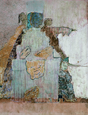 Painting by Ilka Gedő at the Hungarian National Gallery MASK STOREoil on paper laid down on canvas, 71 x 50 cm